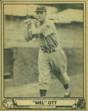 New York Giants right fielder Mel Ott.